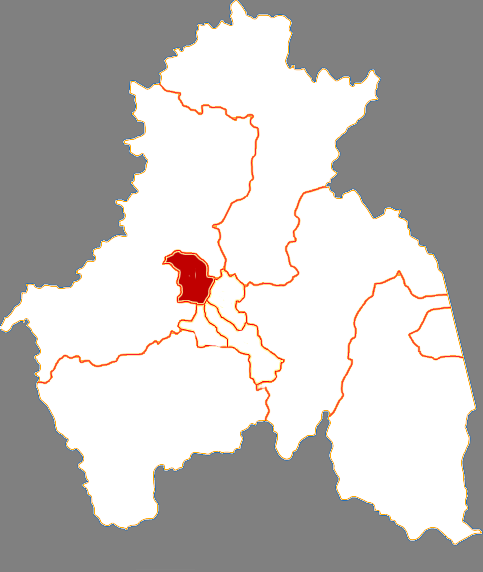 Location of Yangming district in Mudanjiang City, China